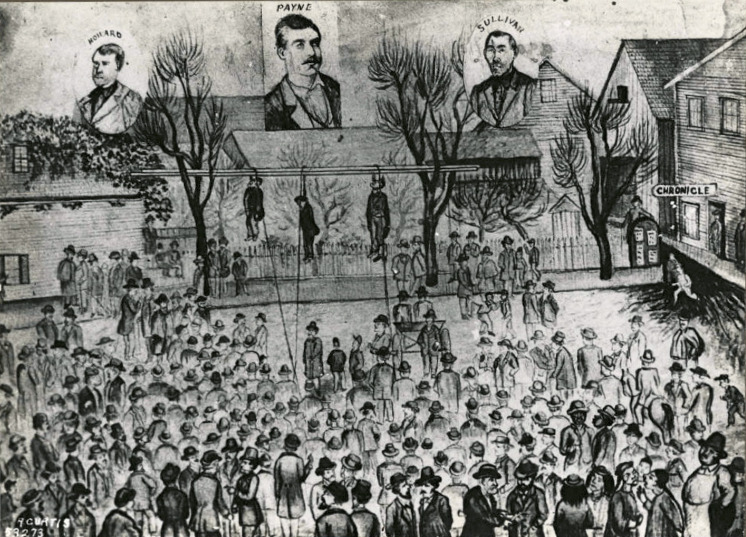 Cartoon of a lynching on January 18, 1882 of James Sullivan, William Howard and Benjamin Payne by a mob in Seattle, Washington drawn by baker and socialist Seattle City Council member A. W. Piper